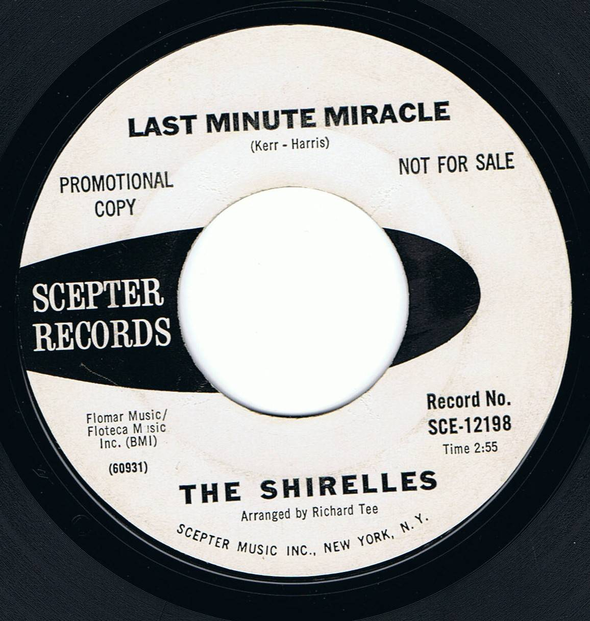 A promotional disc for The Shirelles' last song to chart, "Last Minute Miracle"